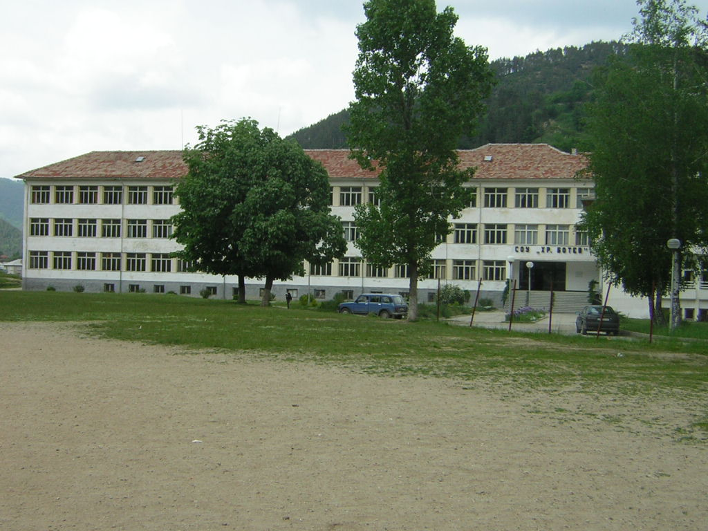 The secondary school in village Chepintsi, Bulgaria